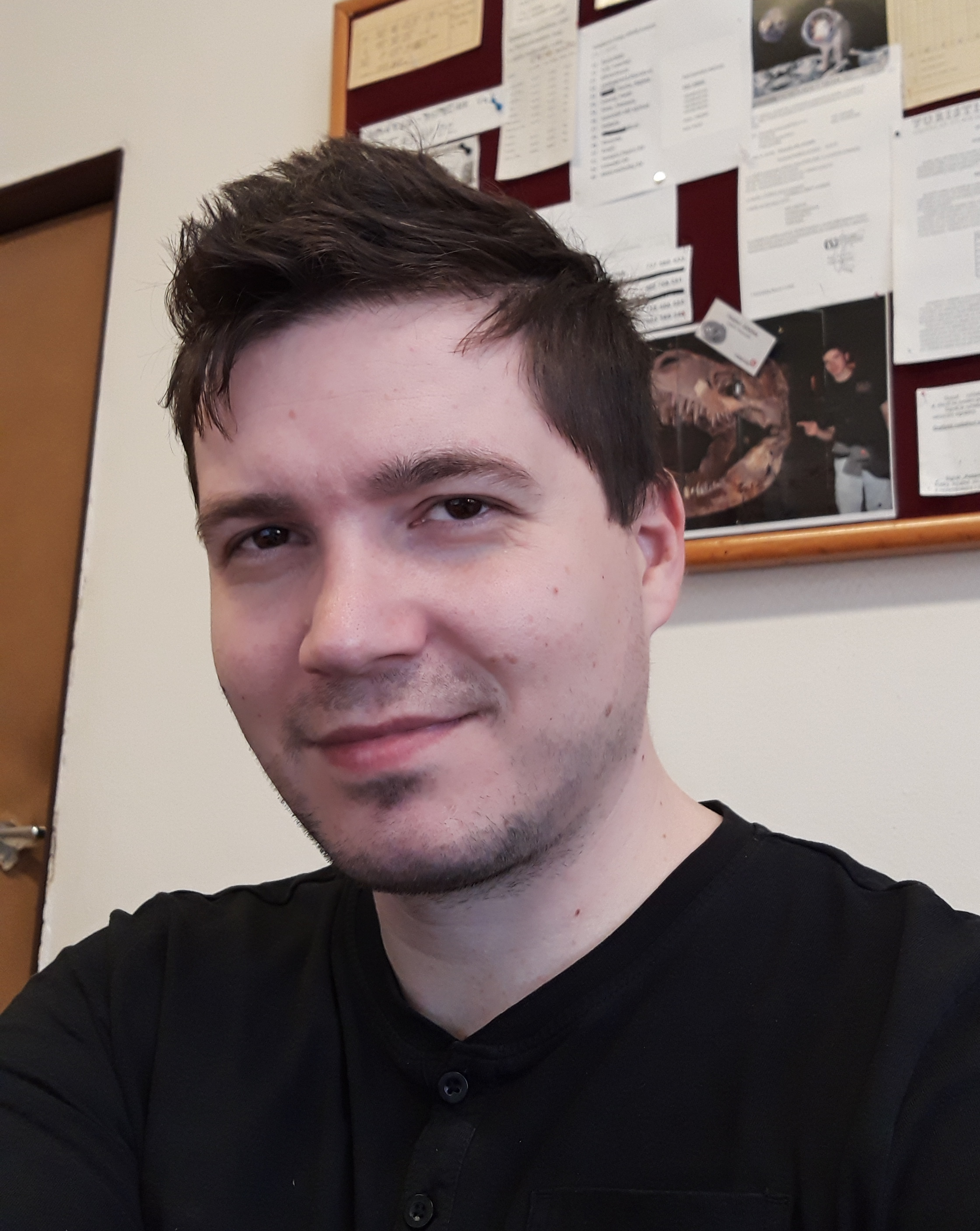 Photo of Vladimír Socha, taken on March 30th, 2020.